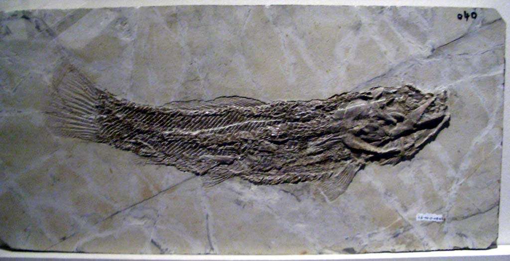 Sinamia fossil displayed in Hong Kong Science Museum